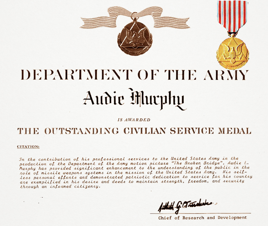 Award citation presented to Audie Murphy for the Department of the Army Outstanding Civilian Service Award